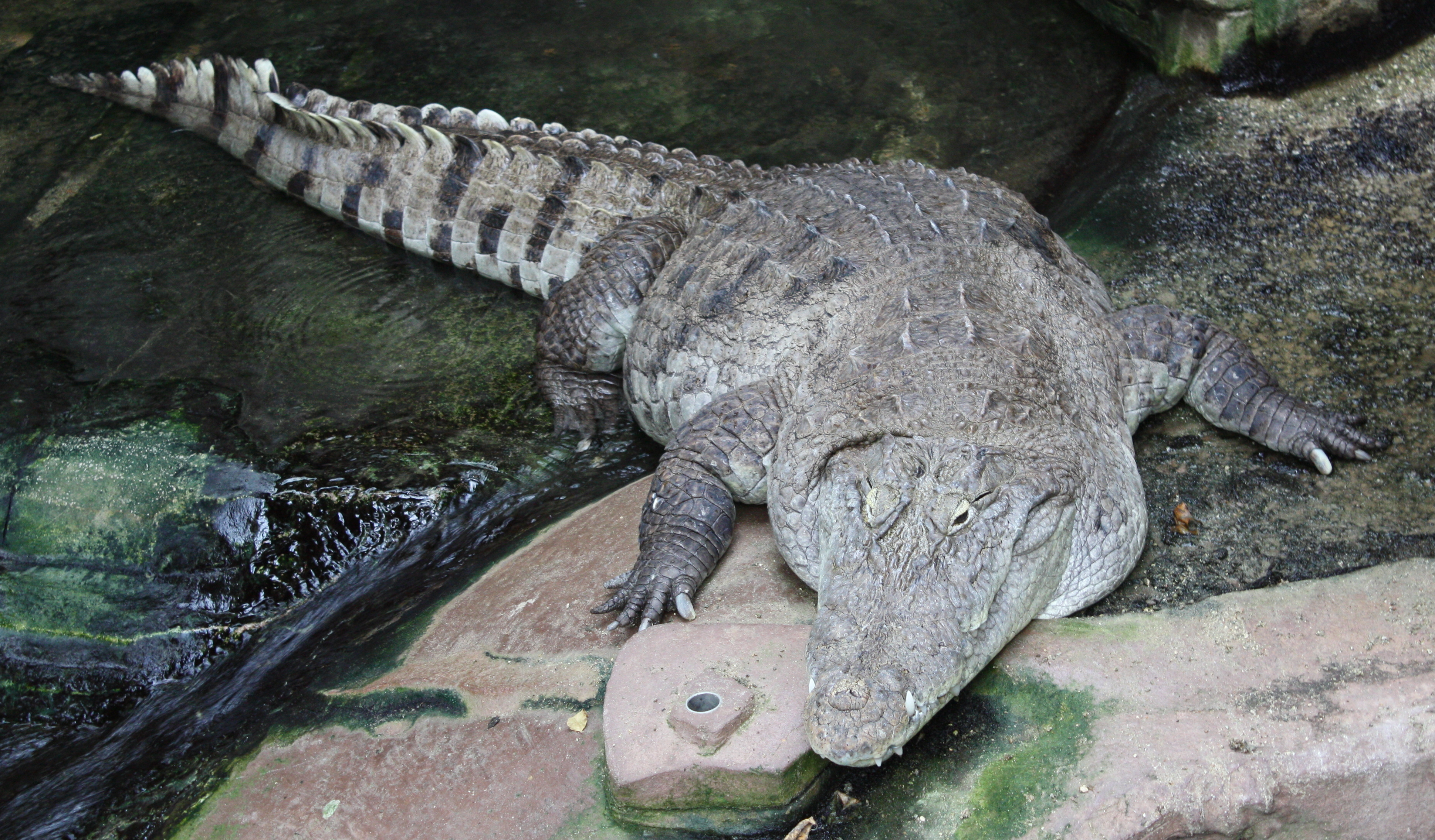 A West African crocodile (Crocodylus suchus) in the Copenhagen Zoo